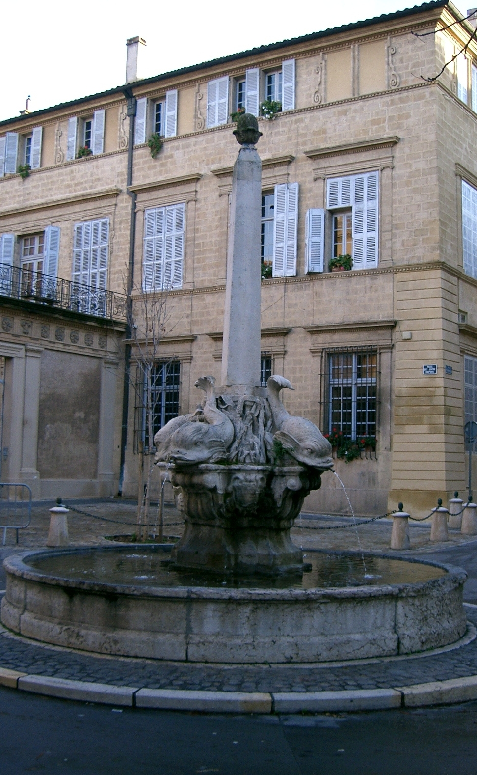 Fontaine-des-Quatre-Dauphins in Aix-en-Provence.